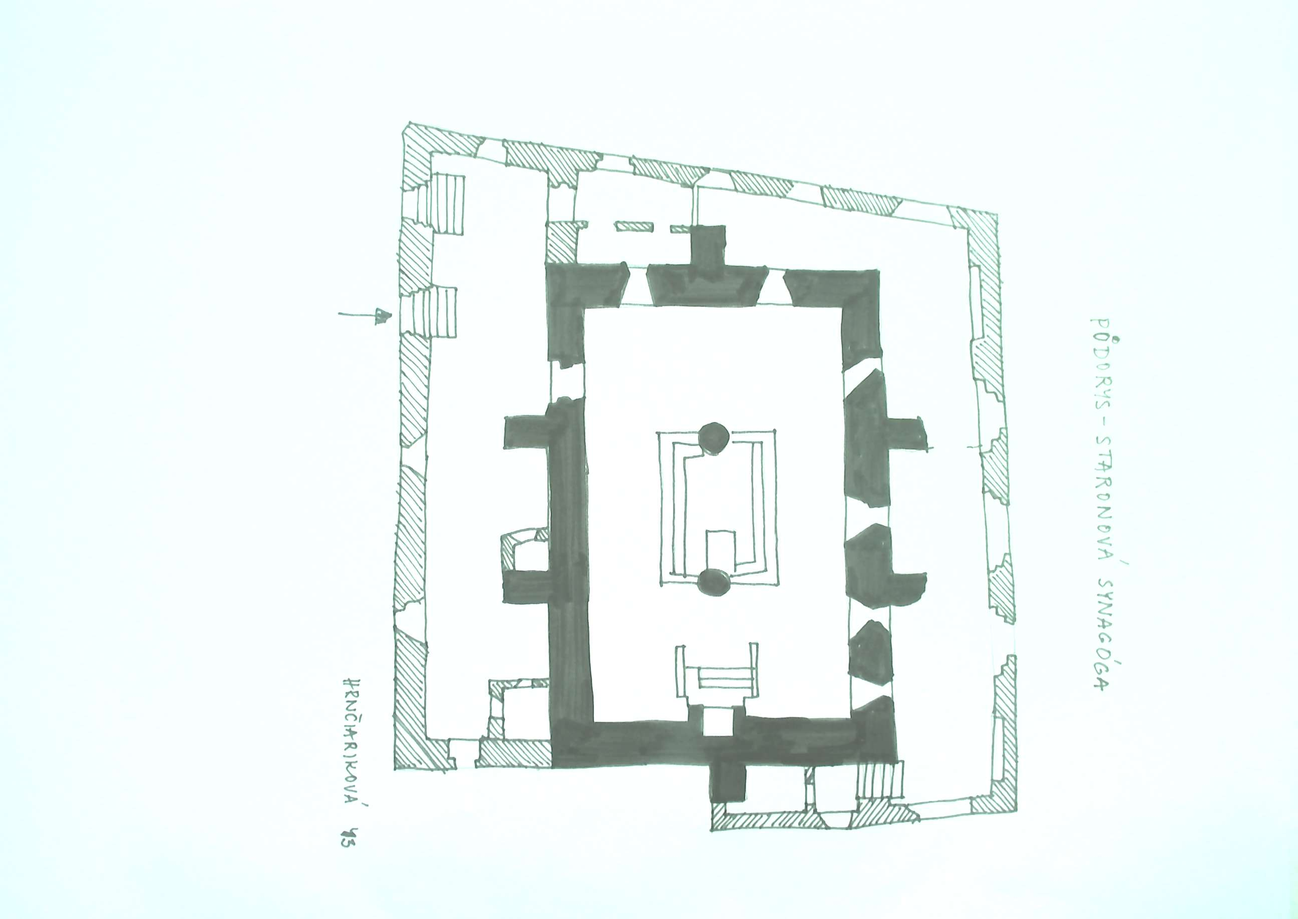 Staronová synagóga